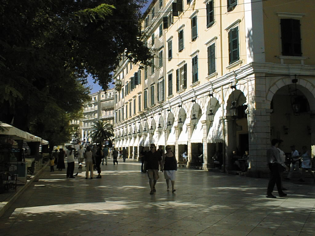 Corfu (city), (Κέρκυρα), Greece